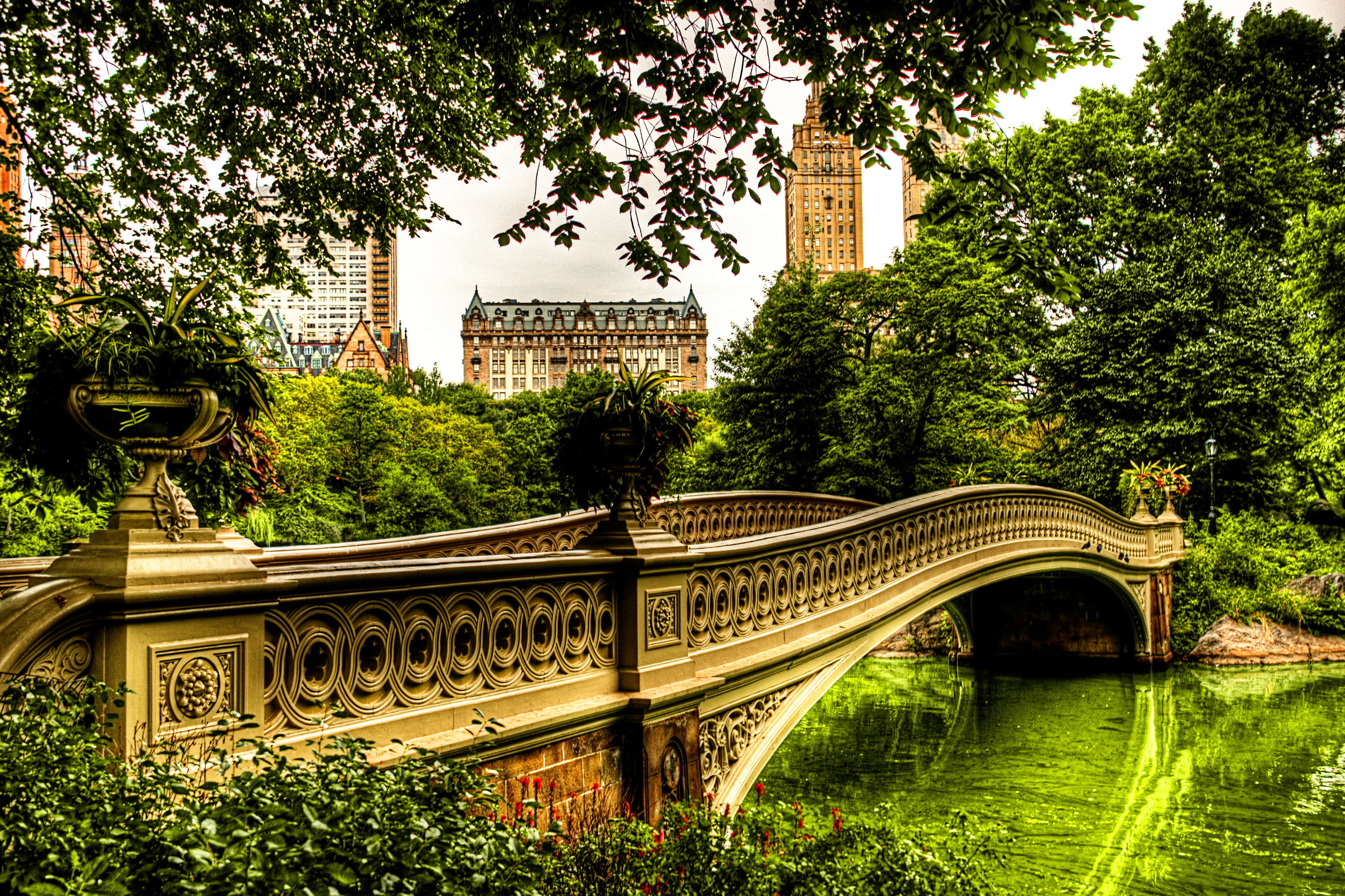 Bow Bridge in Central Park (New York City).